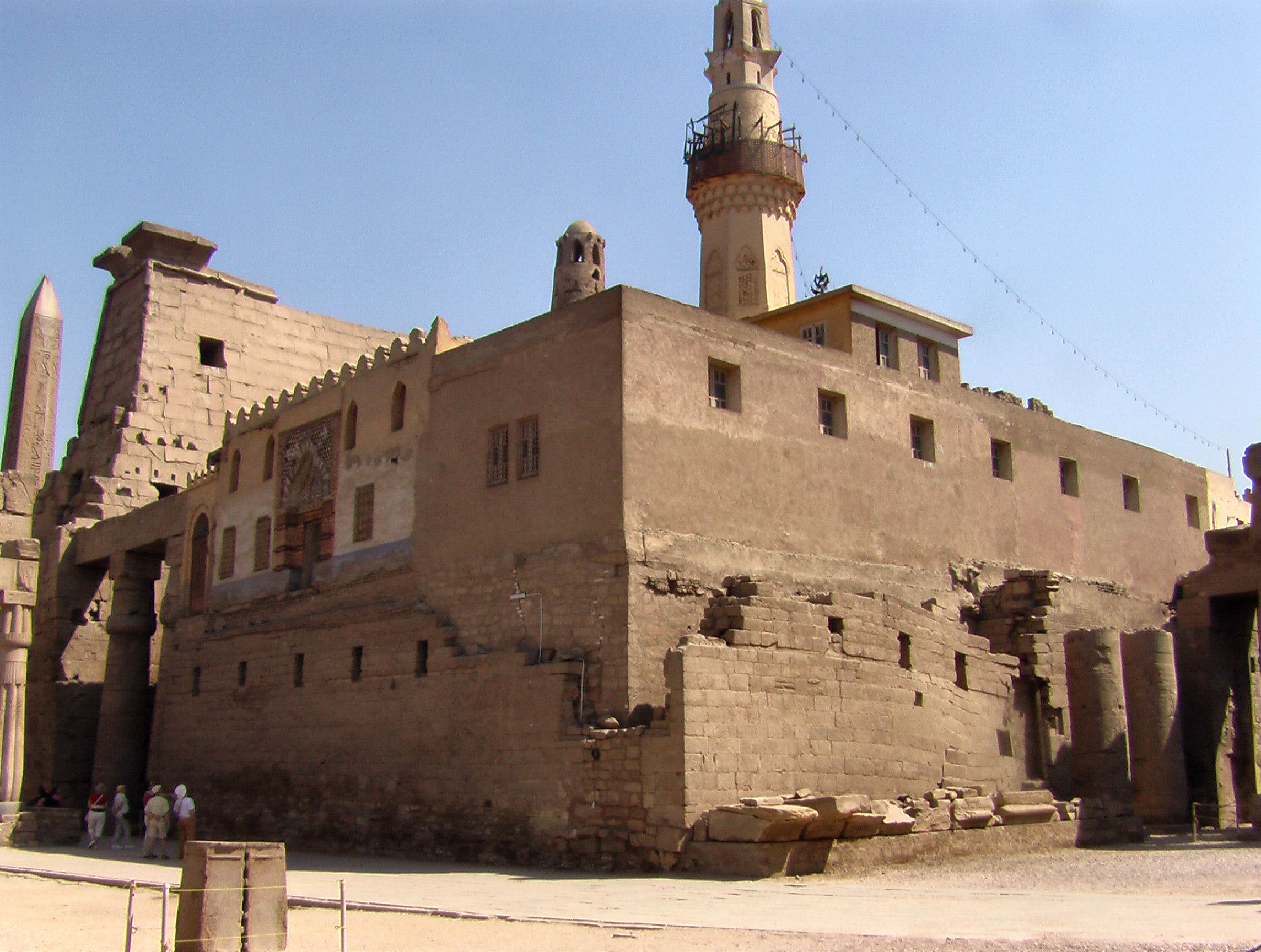 The Abou al Haggag mosque was built on sand that once filled the massive Luxor temple which was erected by Amenhotep III in the 14th century BC. The mosque can be seen some 20 feet above ground level.